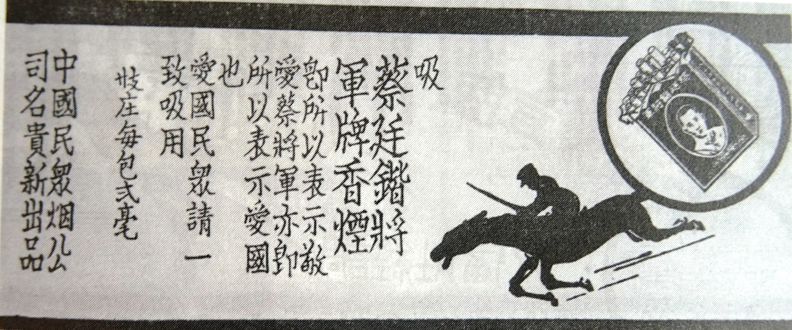 An advertisement of Ts'ai T'ing-k'ai brand cigarettes. Ts'ai was a Chinese military general famous for leading resistance in the January 28 incident in 1932. 粵語: 1932年滬淞戰役後，市面出咗款攞蔡廷鍇做牌子嘅香煙，呢個係隻煙嘅告白。